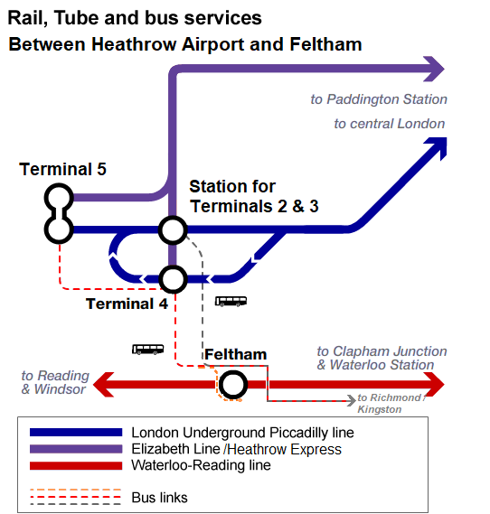 A rail map diagram showing the rail and Tube connections to London Heathrow Airport as at January 2010.